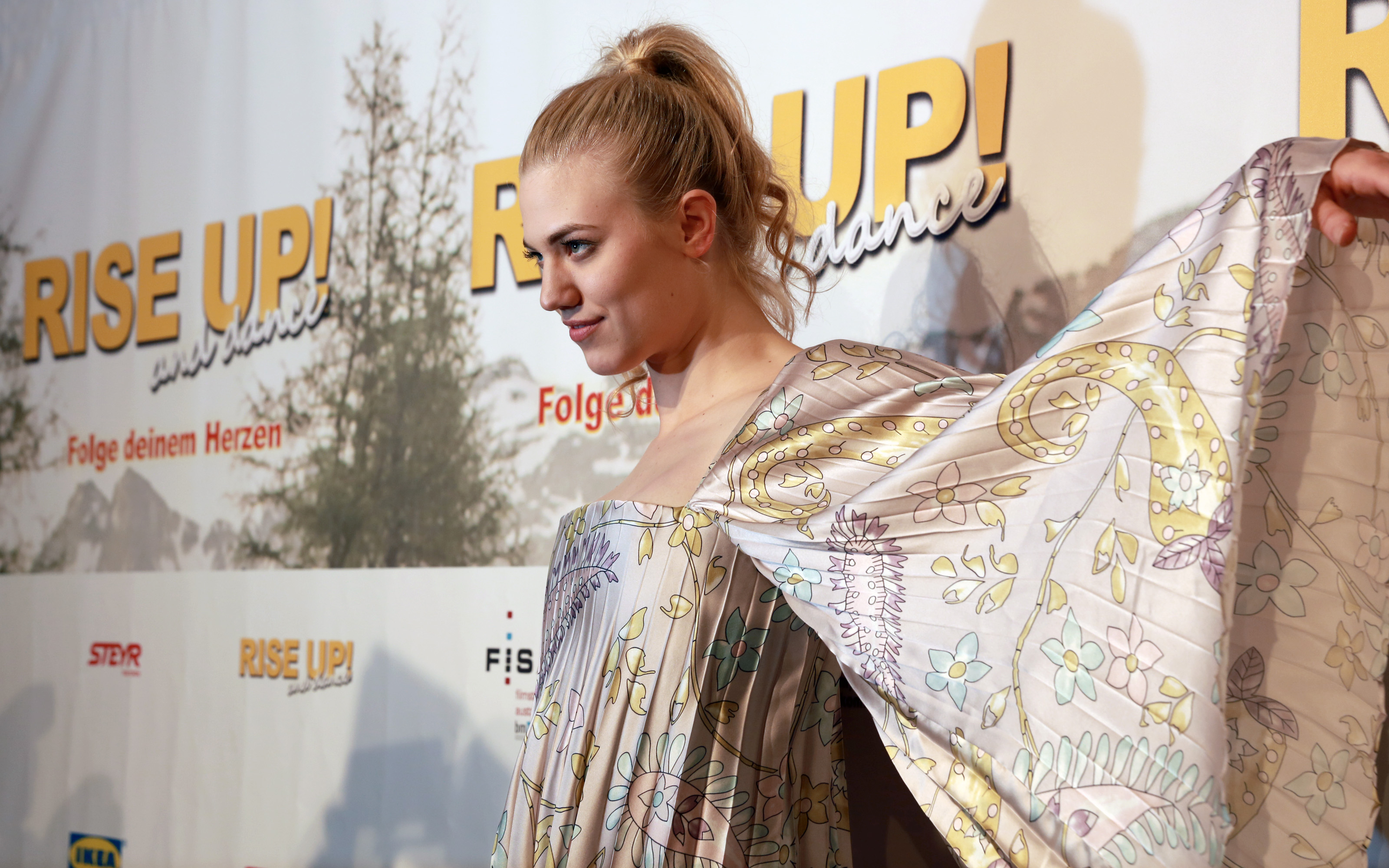 Larissa Marolt at the premiere of Rise Up! And Dance at UCI Kinowelt Millennium City in Vienna.